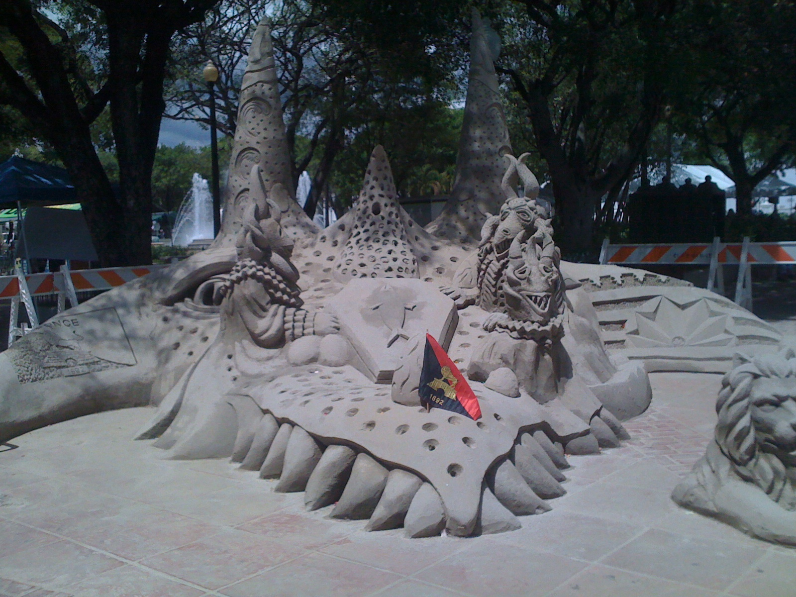 Vejigante in sand by the Sand Masters in the Ponce Carnaval.